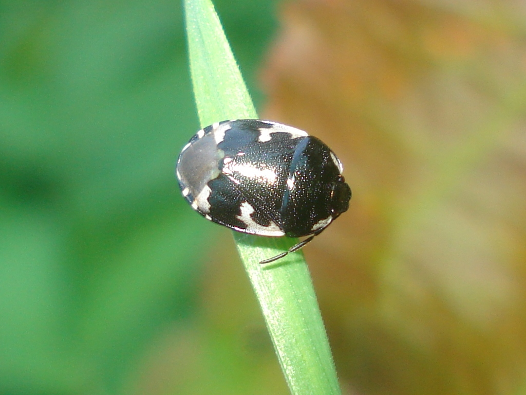 Pied Shield bug (Tritomegas bicolor)